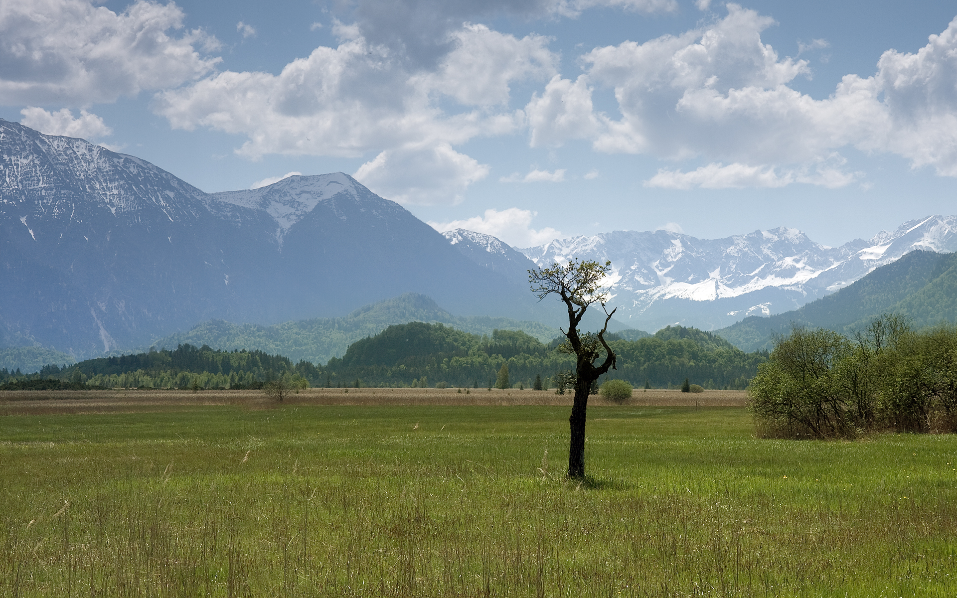 Based on the northern edge of the bavarian Alps and south of the city Murnau, the Murnauer Moos forms with 32 km² the biggest connected bogs of Central Europe